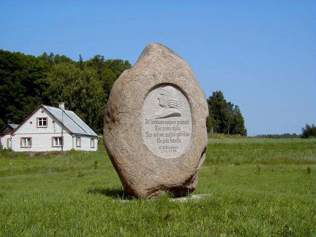 monument for Friedrich Stender *1714-1796